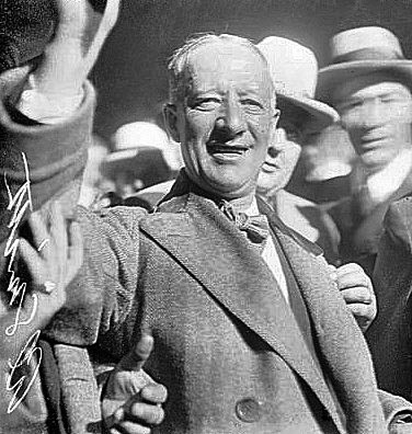 New York Governor Al Smith waves to crowds during his run for President